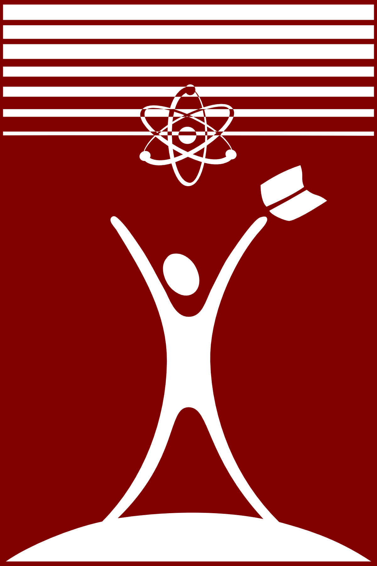 Logo of Kerala Sasthra Sahithya Parishad